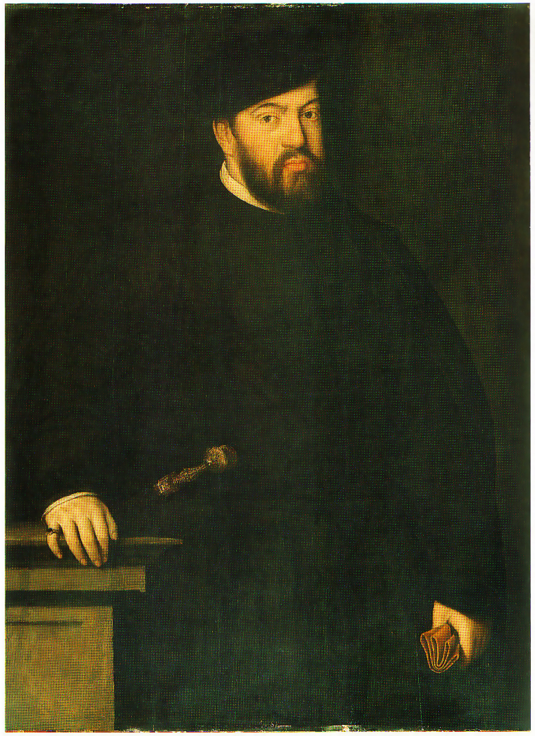 Portrait of king John III of Portugal (1502-1557).